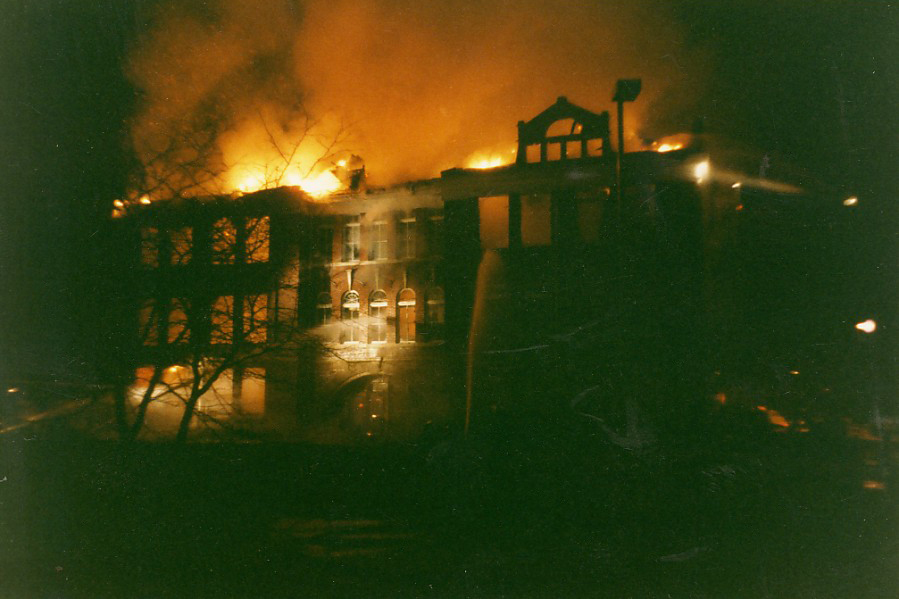 photo by Einar Einarsson Kvaran aka Carptrash 17:41, 26 January 2007 (UTC) of the Sherzer Hall fire of March 9, 1987 at Eastern Michigan University